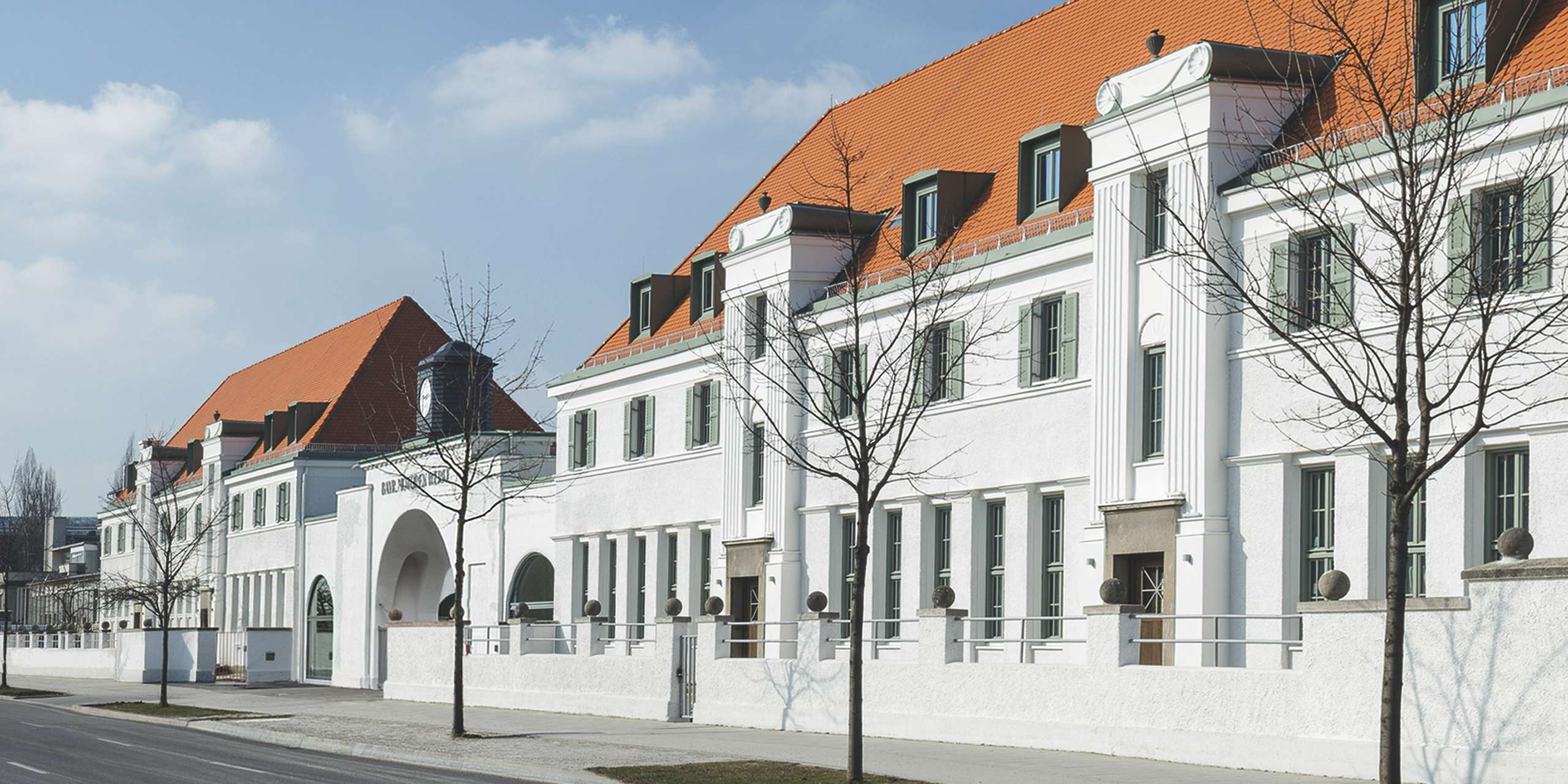 BMW Group Classic, Moosacher Straße München